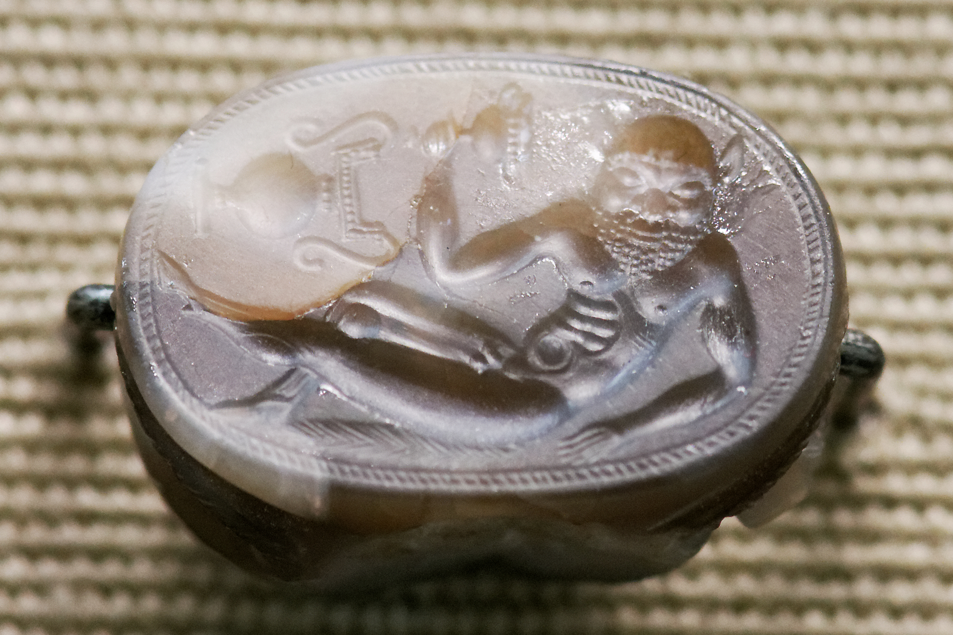 Reclining hoofed satyr holding a drinking cup. Scarab from Etruria.